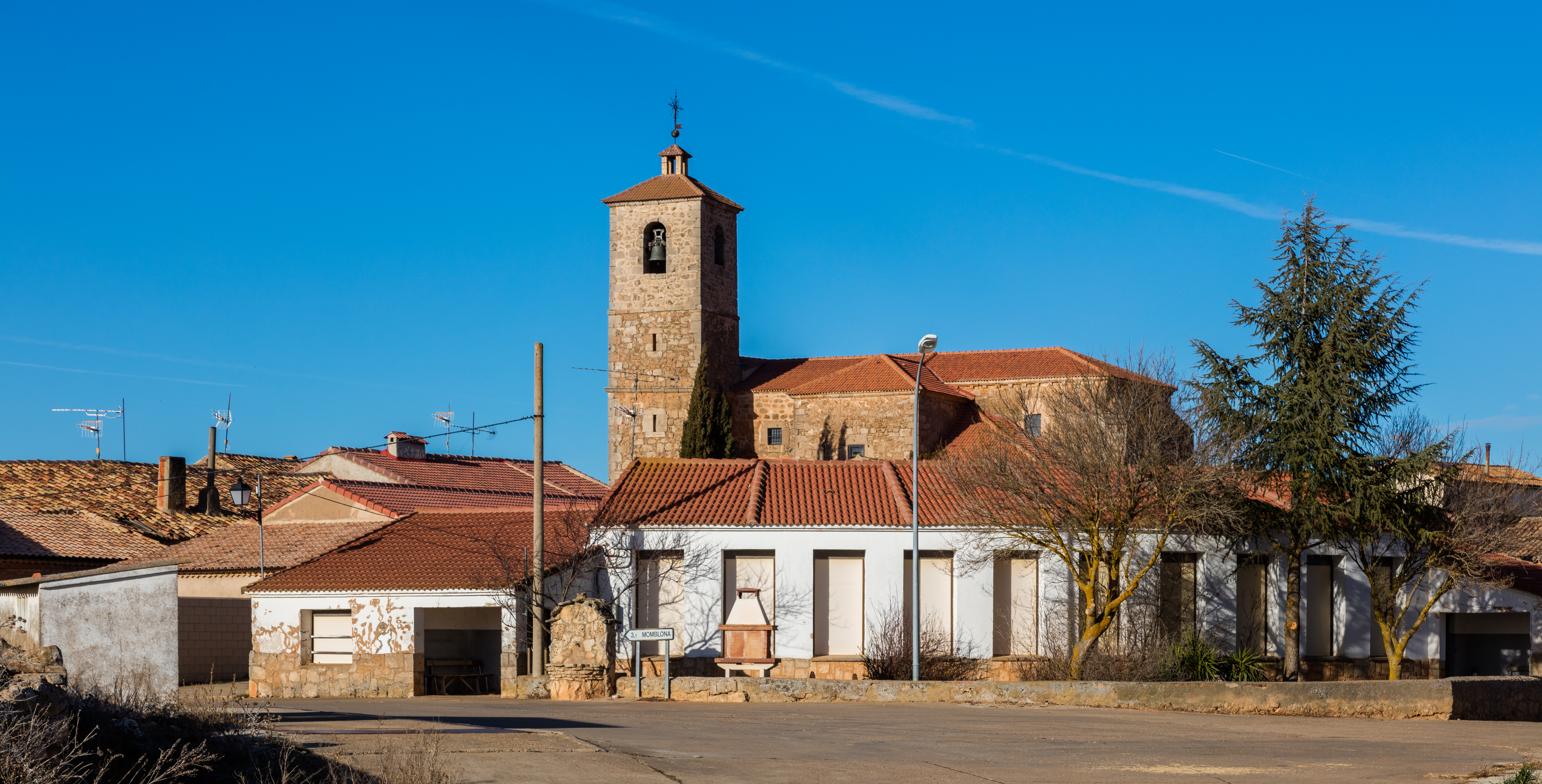 Alentisque, Soria, Spain